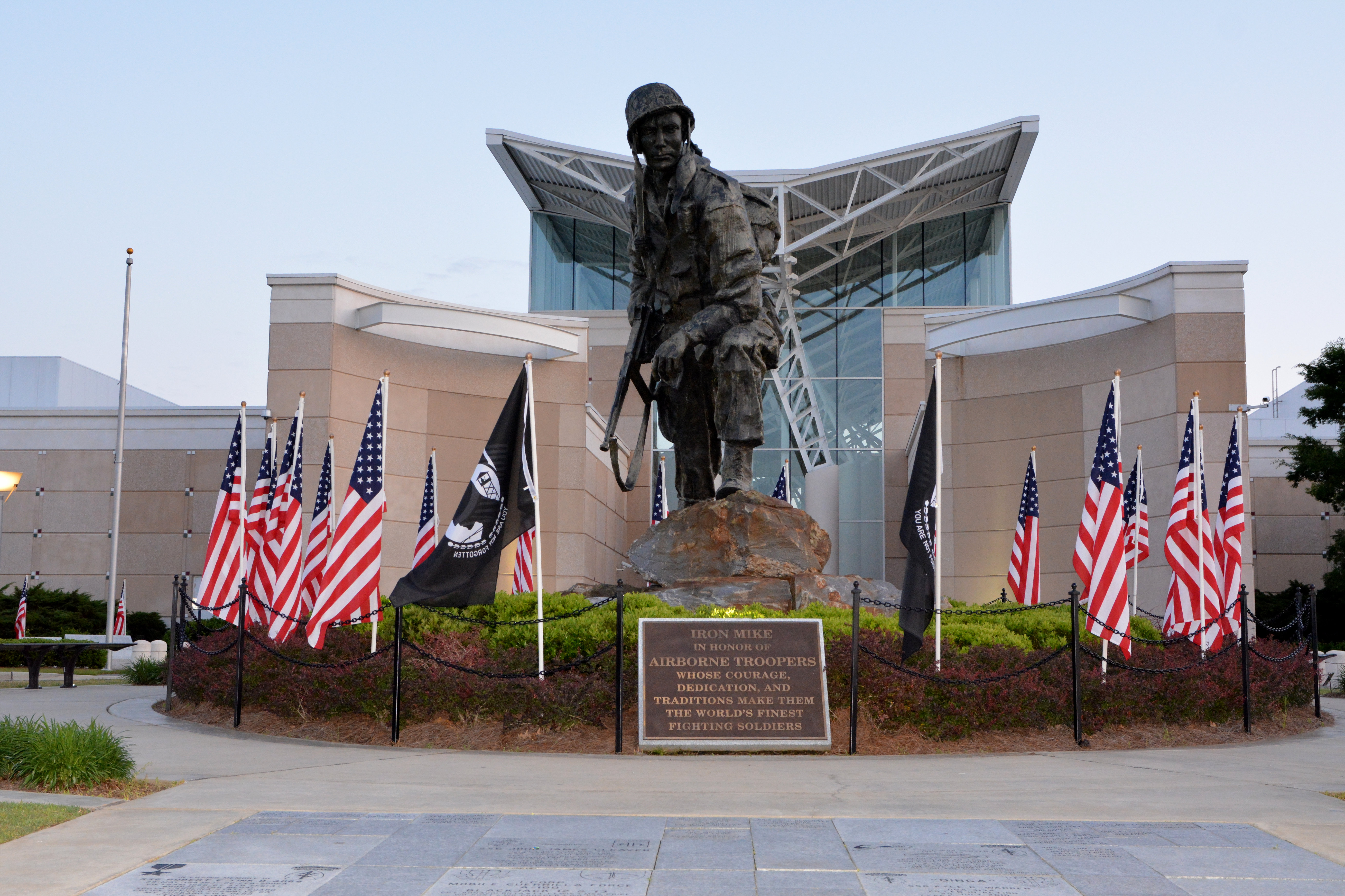 Statue of the Iron Mike Located at the Airborne and Special Operations Museum Fayetteville, NC